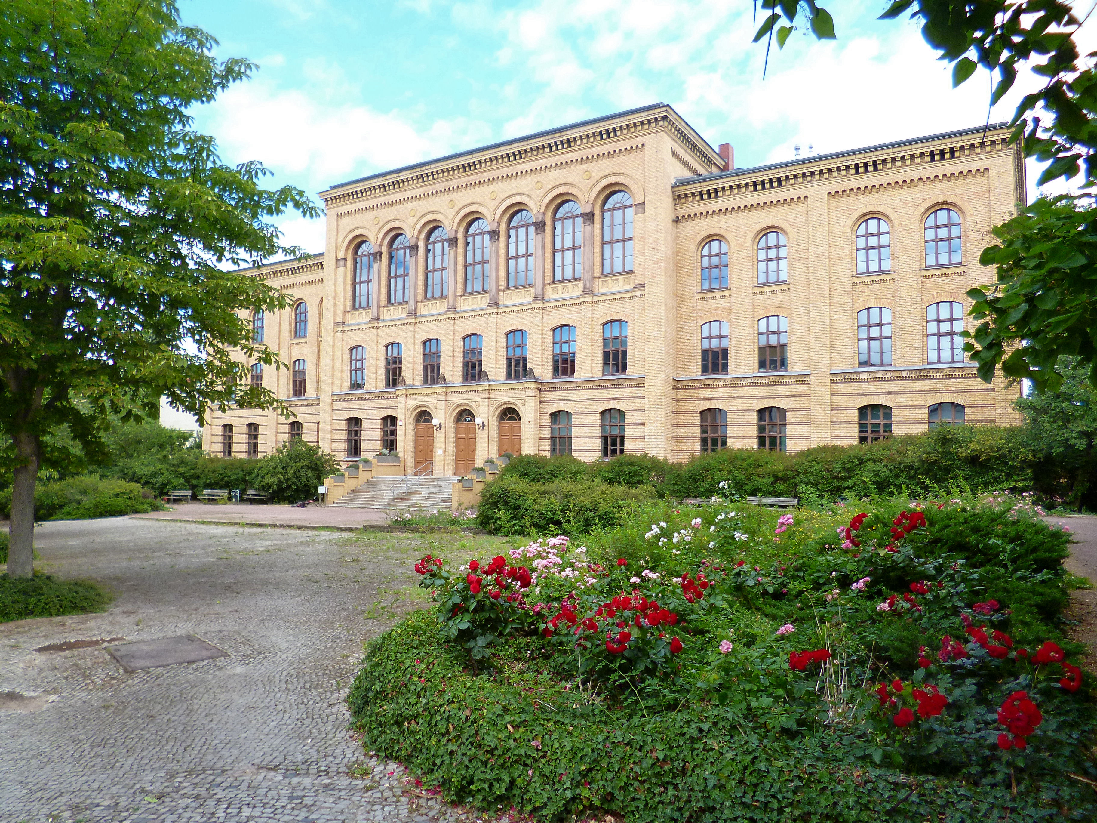 Former Stadtgymnasium, built in 1867/68, Adam-Kuckhoff-Strasse No. 37 in Halle (Saale)